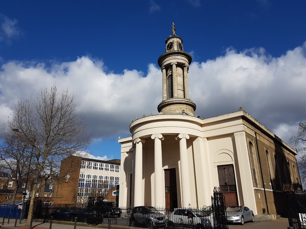 All Saints Orthodox Cathedral, Exterior, London, Camden Town